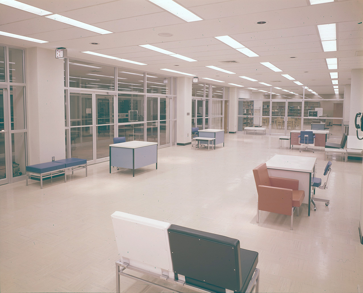 Interior of Arlington State College Library; room with tables and chairs.